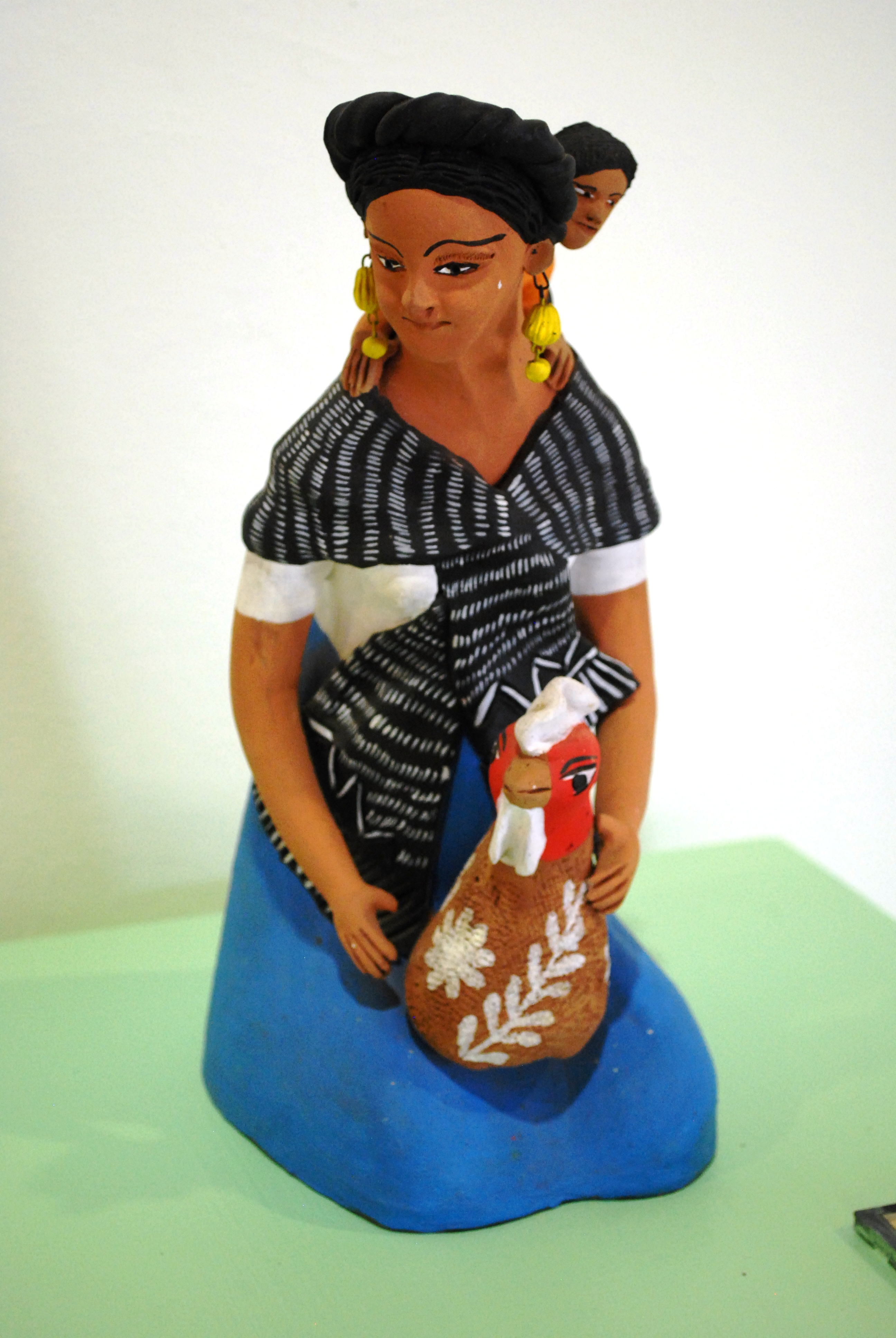 "Mujer con Niño" by Guillermina Aguilar Alcantara of Ocotlan de Morelos on display at Museo Estatal de Arte Popular de Oaxaca in San Bartolo Coyotepec, Oaxaca, Mexico. See COM:CRT/Mexico#Freedom of panorama